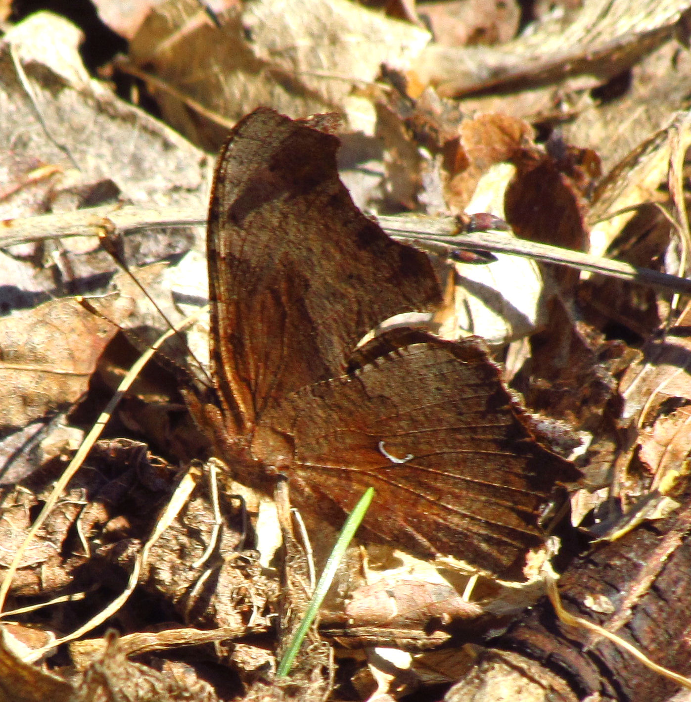 Satyr Comma (Polygonia satyrus), under side, Ottawa, Ontario, Canada